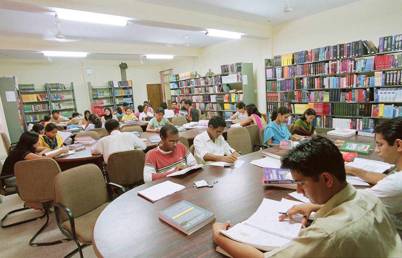 An inside view of medical library - Government Medical College, haldwani. it is one of the most sought after medical libraries in India.